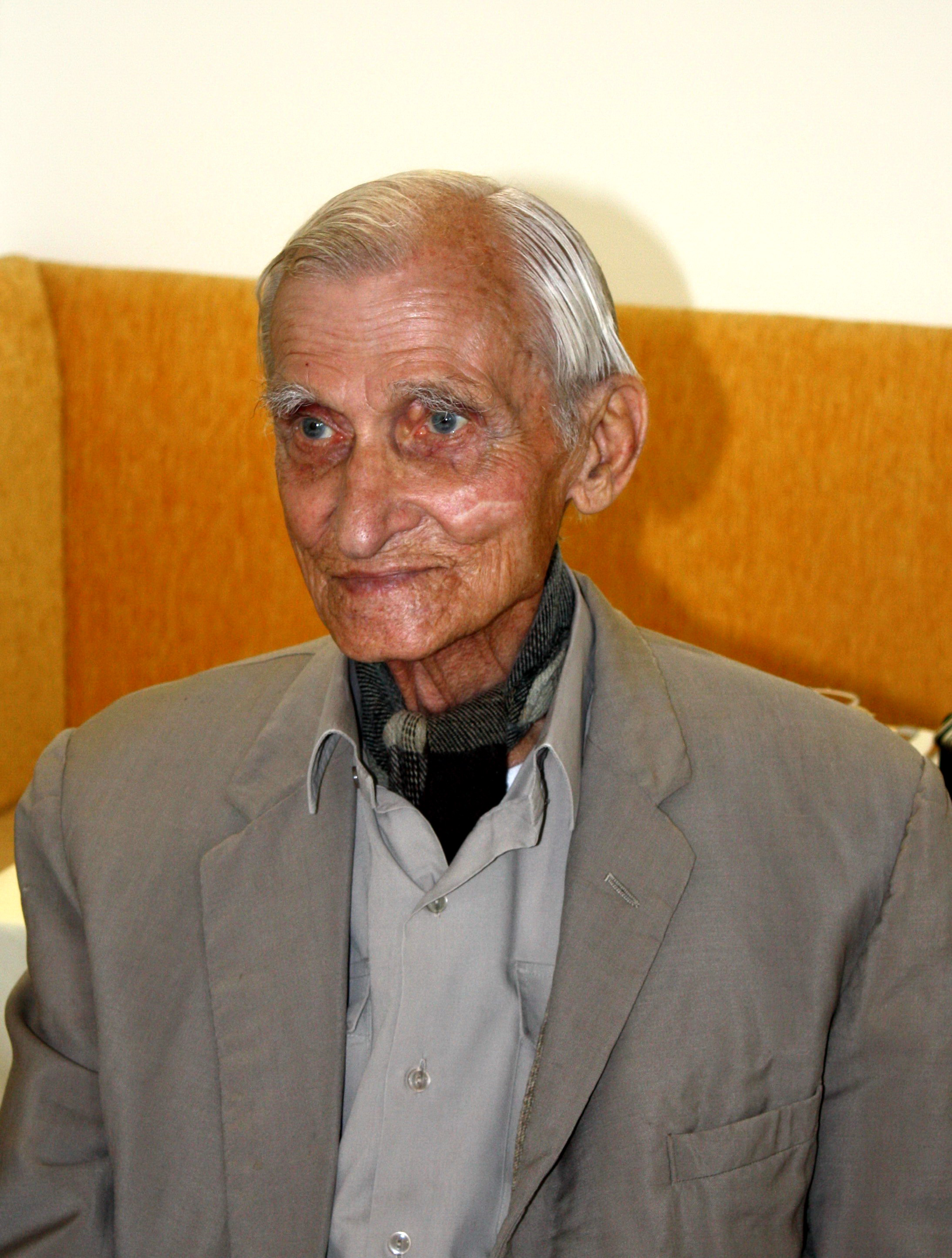 War veteran and RAF member Otakar Černý in 2009.